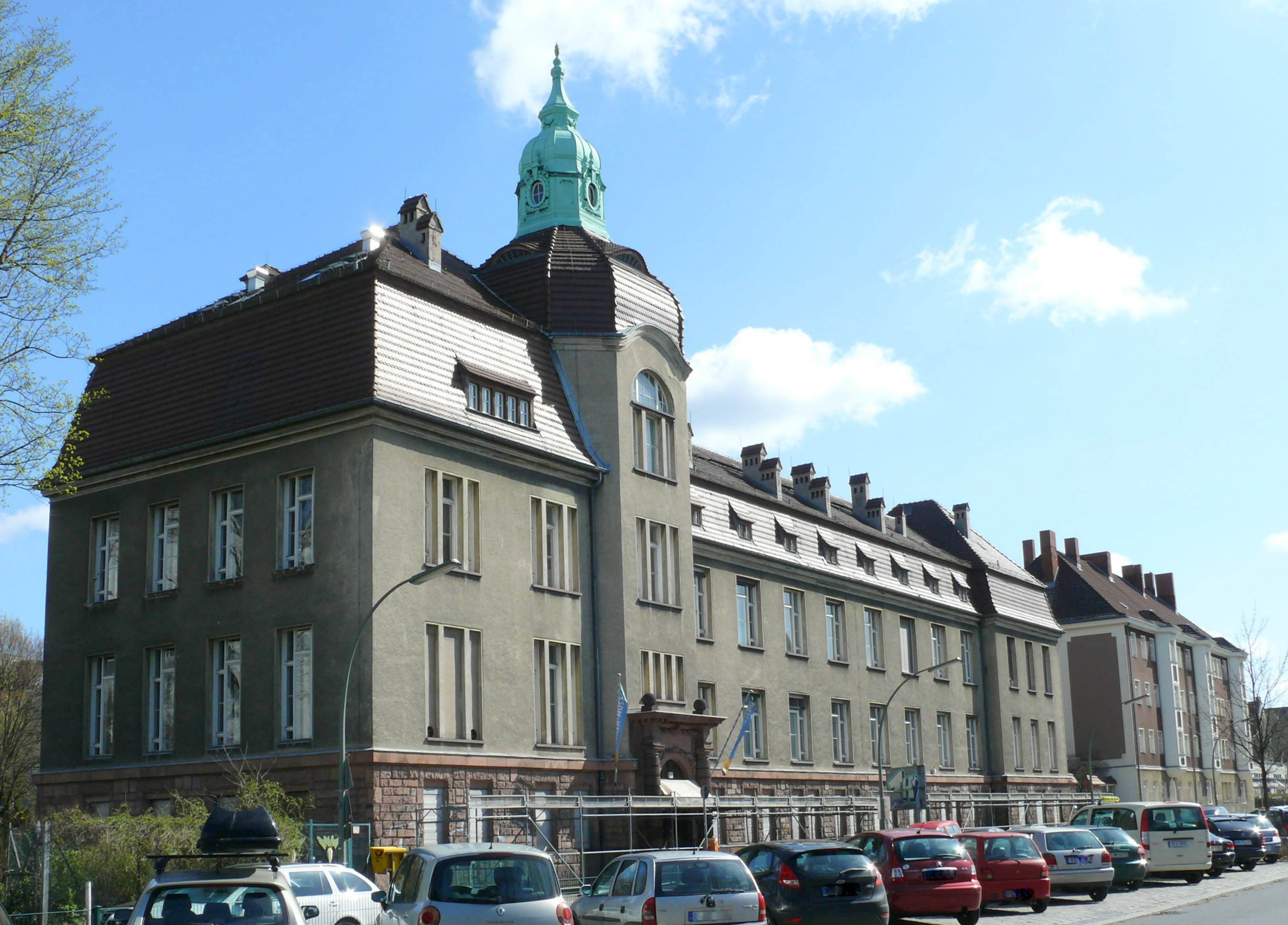 Berlin-Wedding Amrumer Straße Zuckermuseum